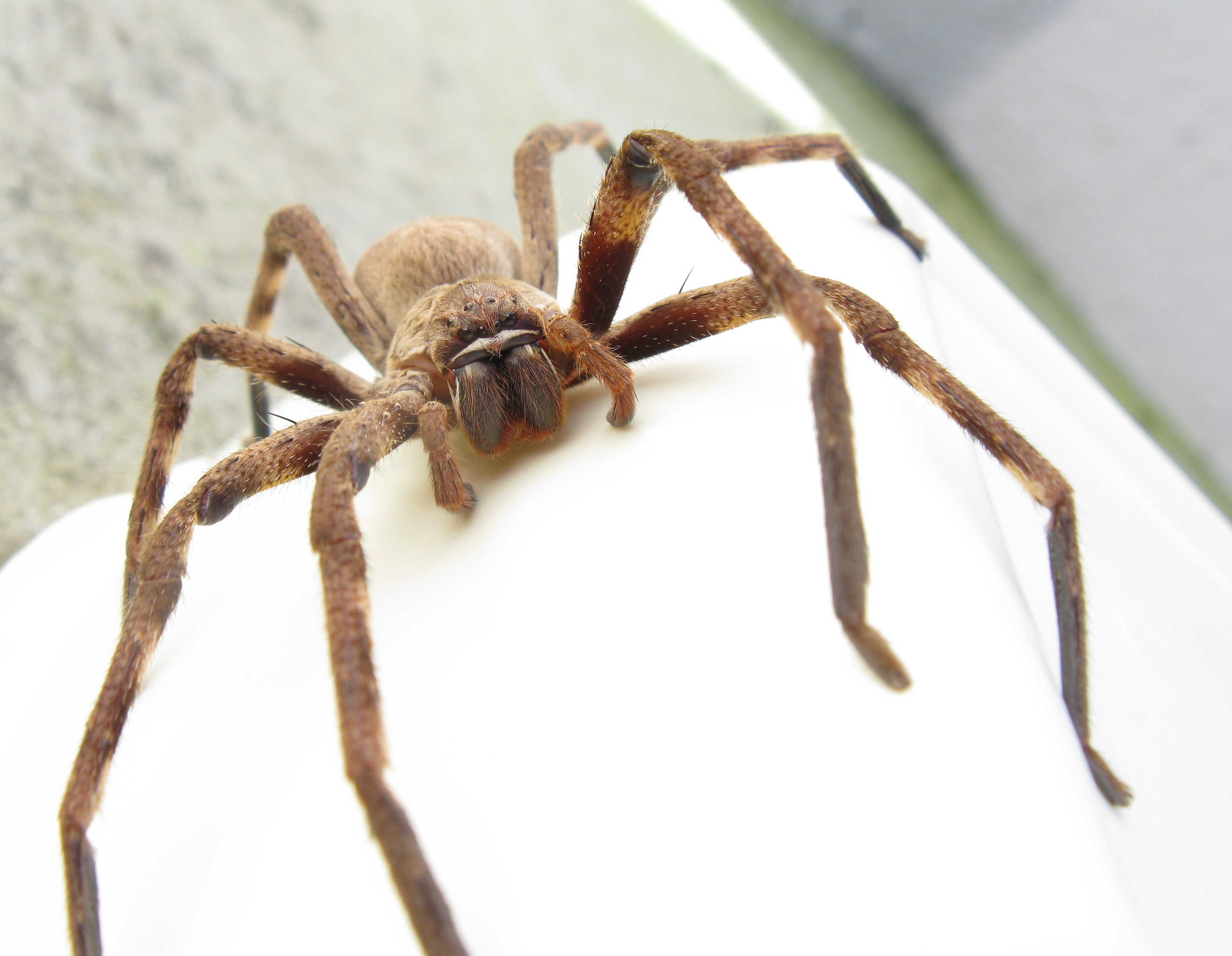 Sparassidae. Palystes castaneus, mature female. Rain spider, or lizard eating spider. Photographed near Somerset West, South Africa. Head+body Length about 3 to 4 cm